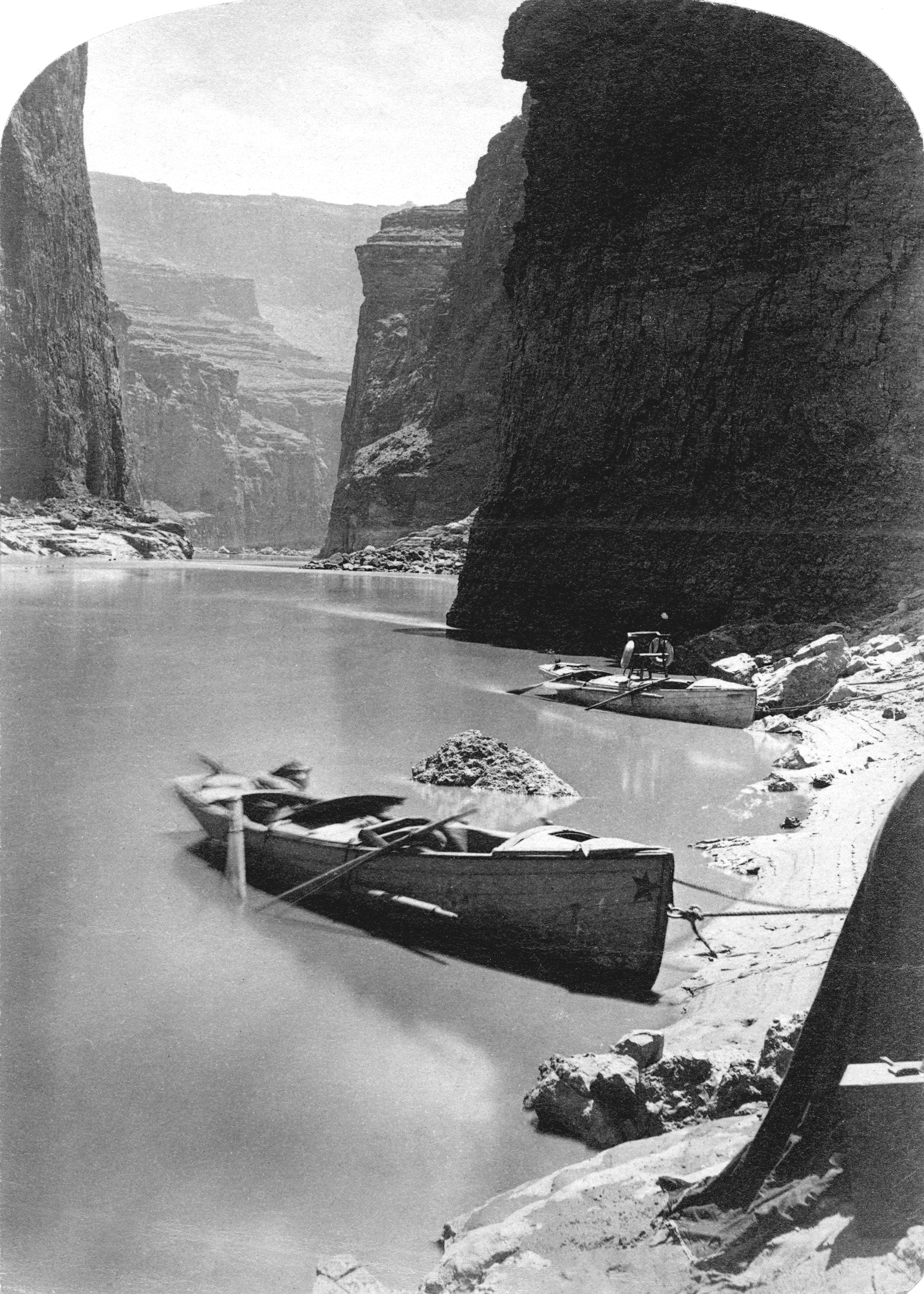 17248 FROM JOHN WESLEY POWELL'S 2ND EXPEDITION. "THE BOATS IN MARBLE CANYON." GRCA 14642B. 1872